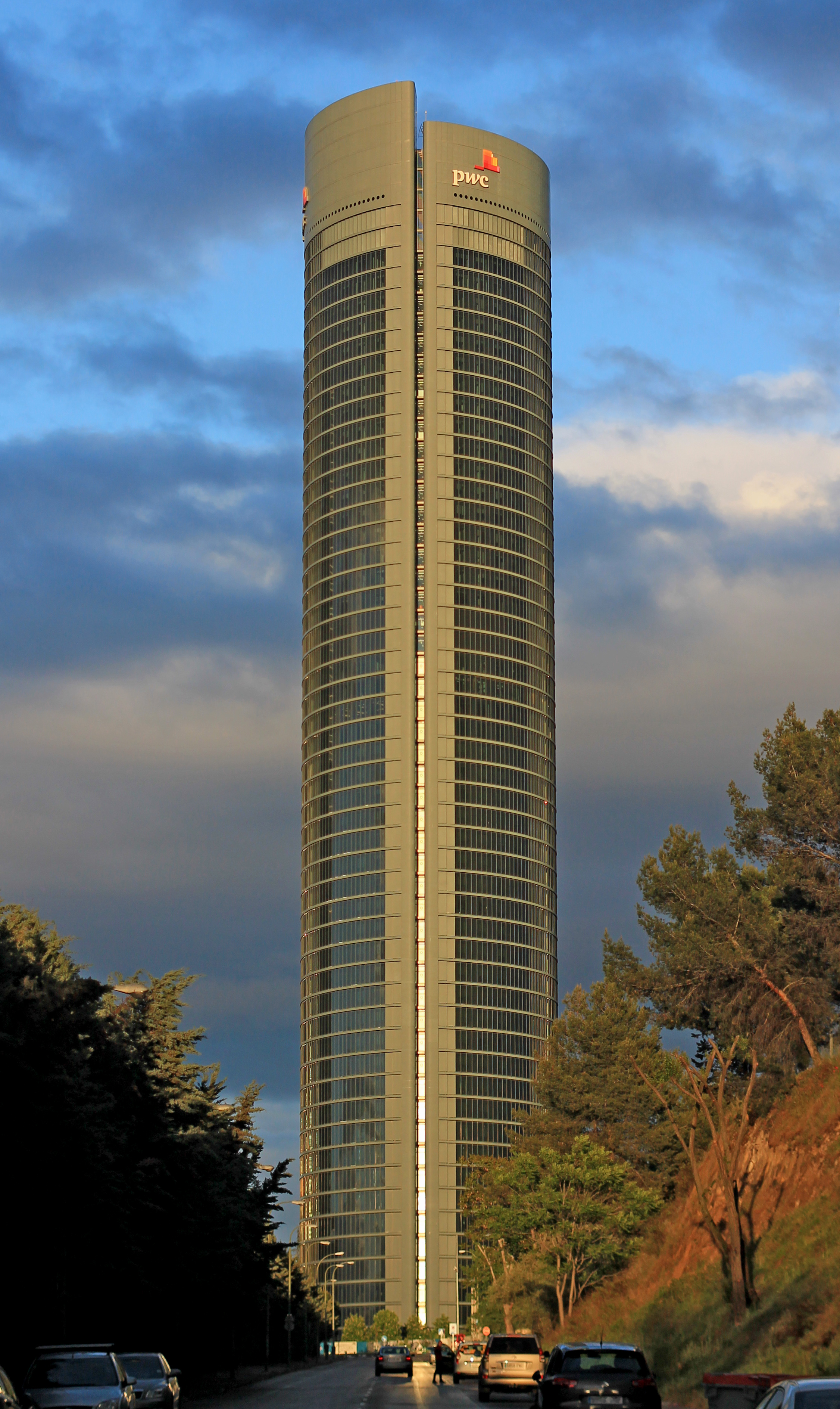 View of PwC Tower in Madrid (Spain).